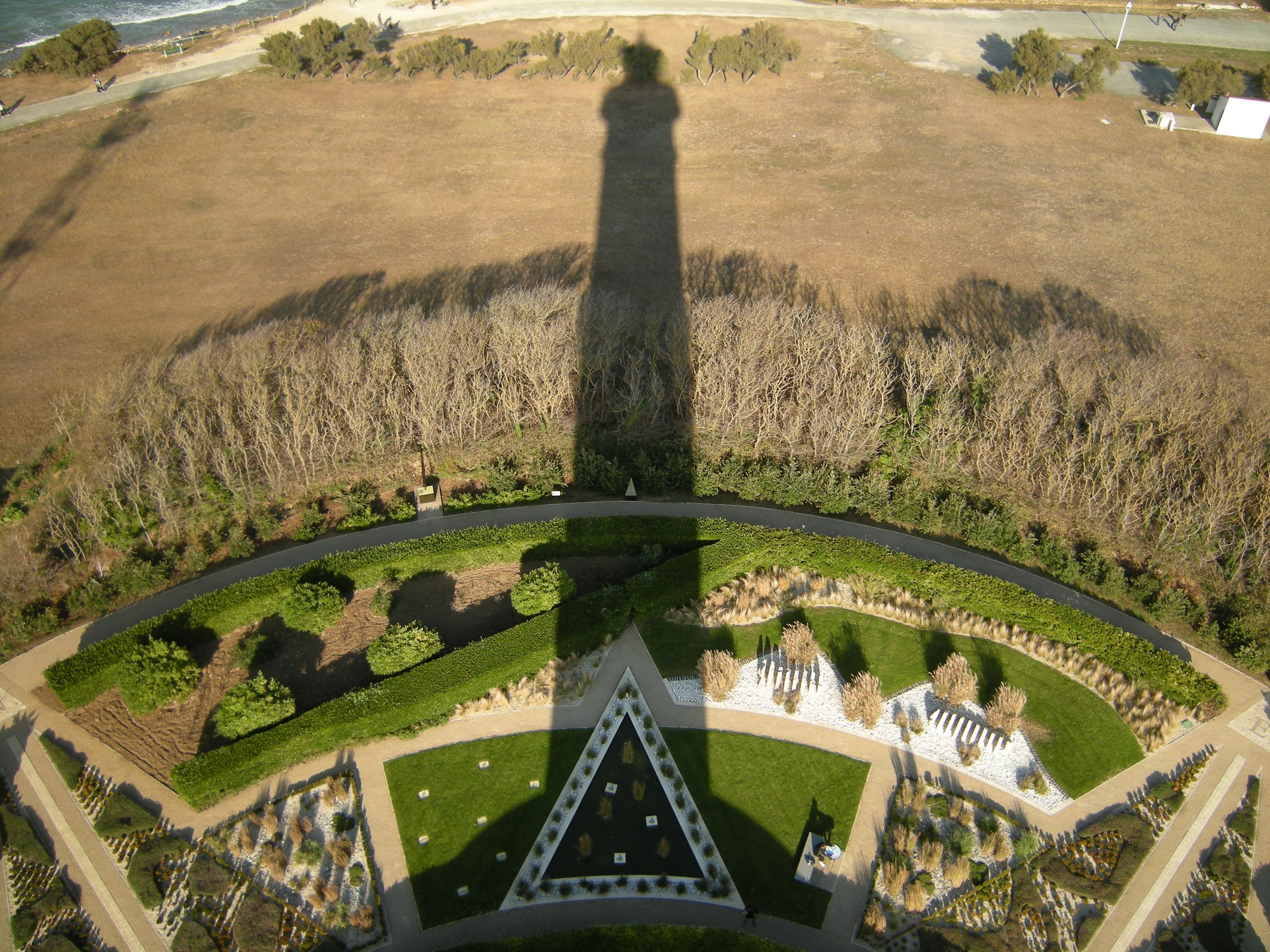 The garden of the lighthouse of Chassiron, on the Island of Oléron, France. .